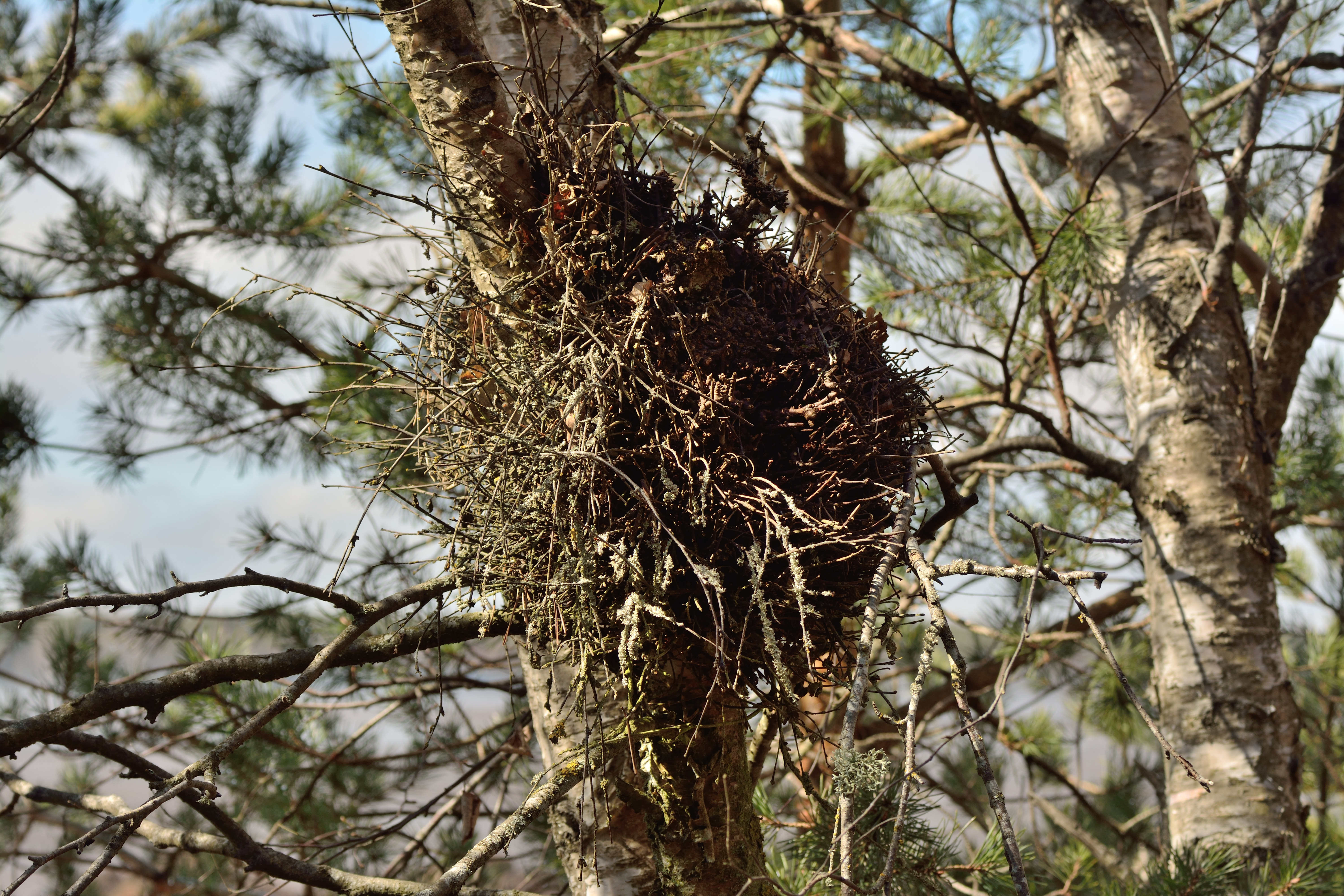 Witch's broom (caused by Taphrina) on Betula pubescens in Ohtu bog